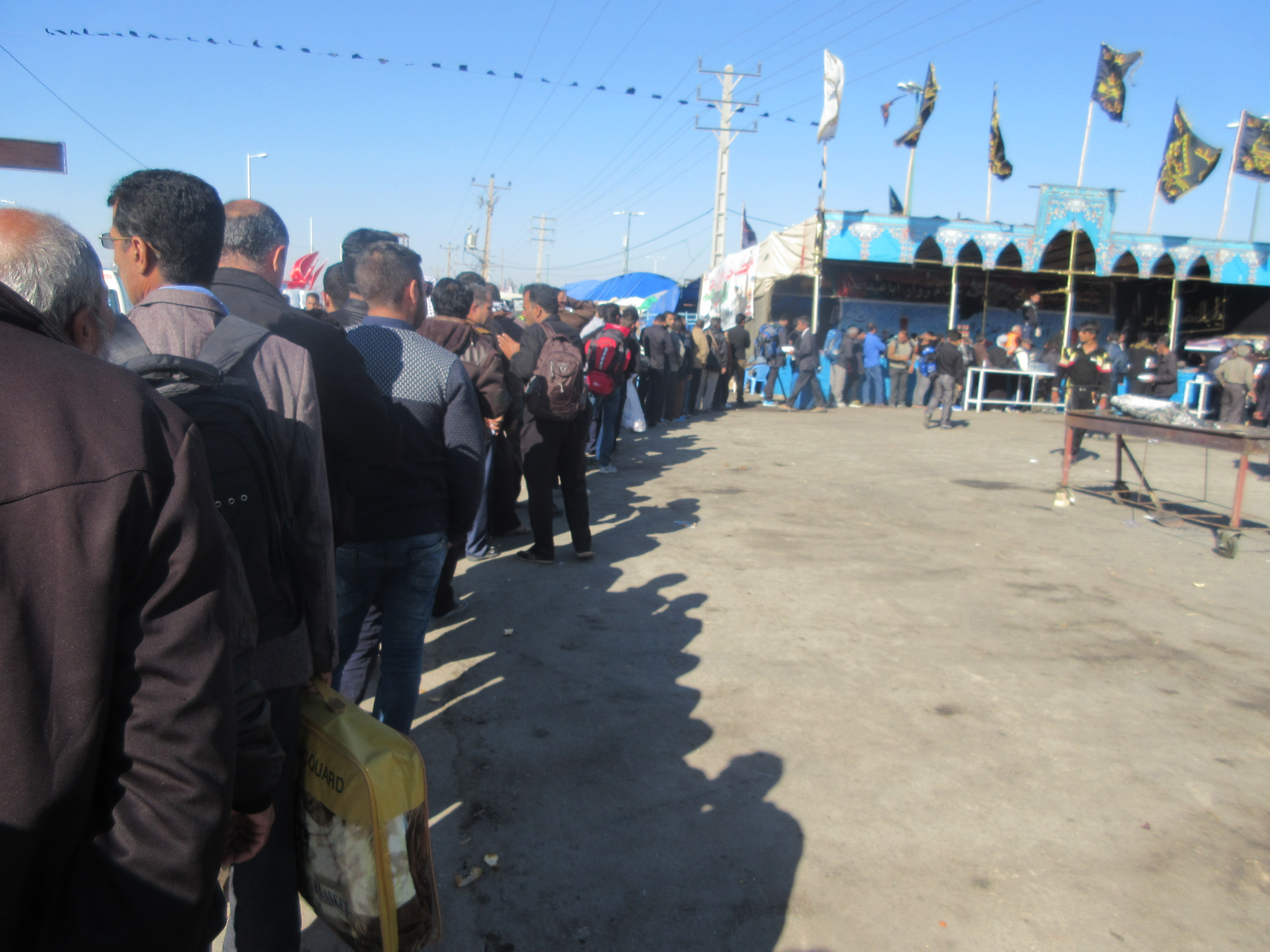 Arbaeen pilgrims waiting for receiving free food from mawkibs.